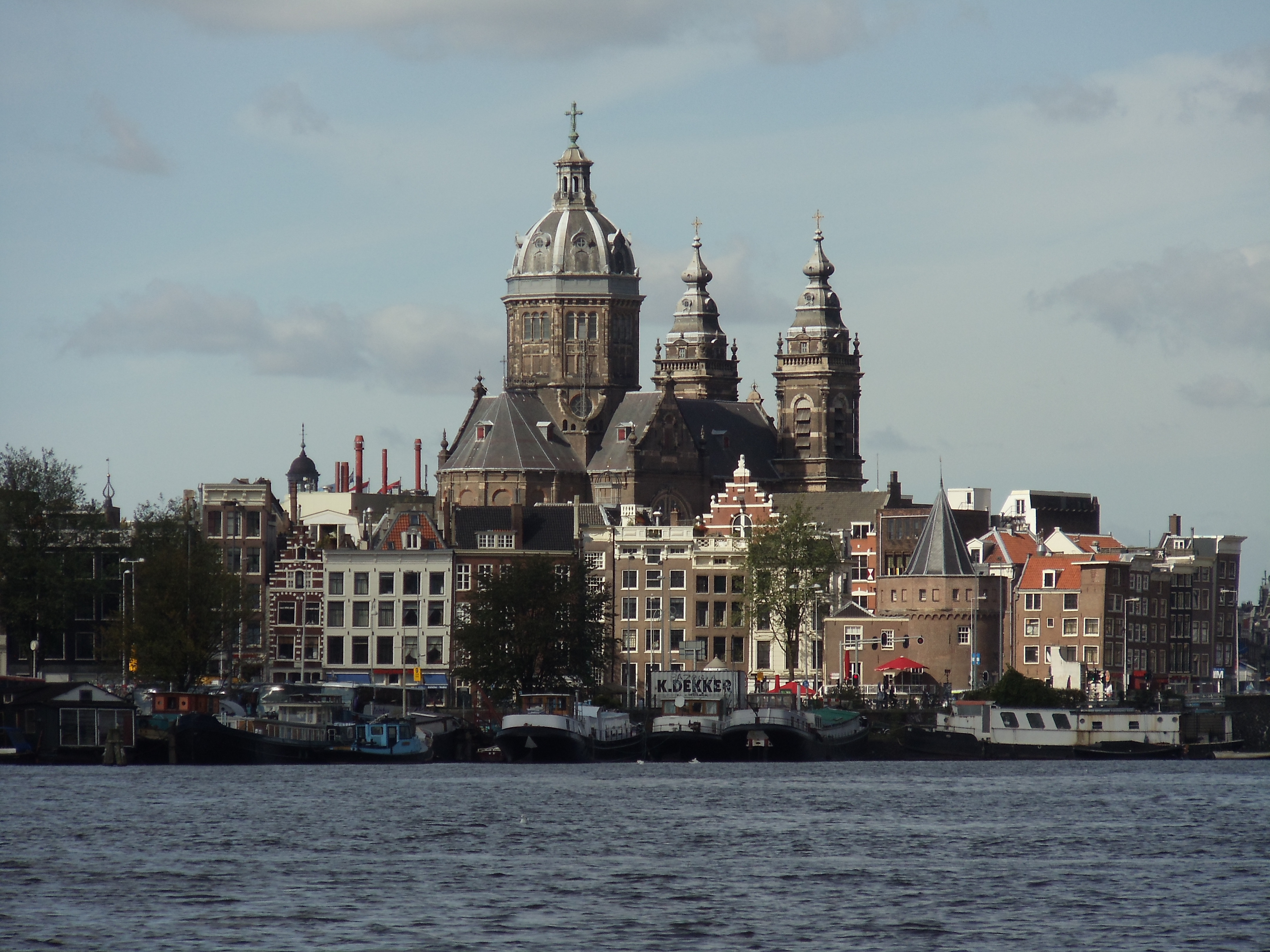 The Church of St Nicholas in Amsterdam.